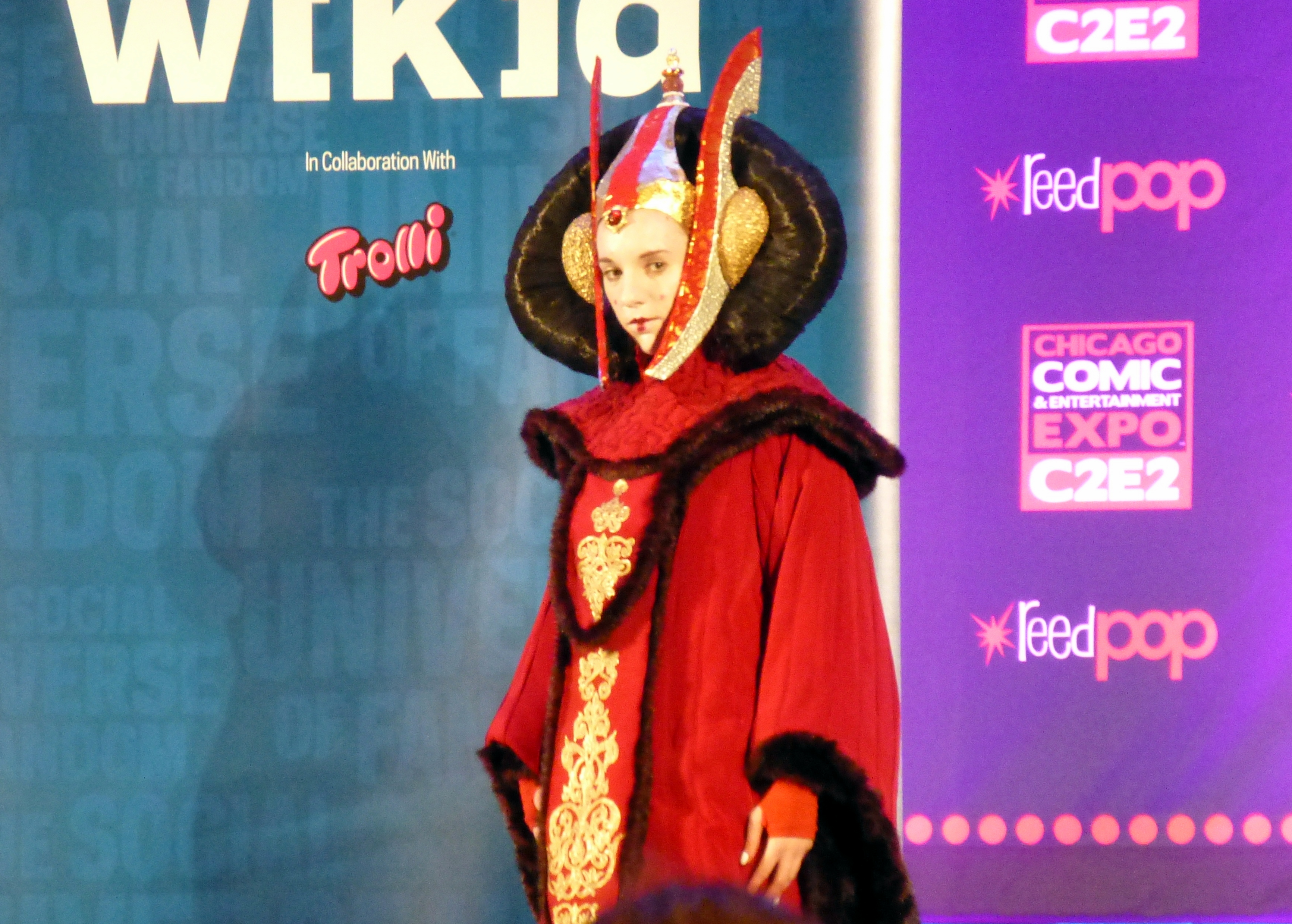 Lisa Hale as Queen Amidala (from Star Wars Episode I: The Phantom Menace) in the First Annual Chicago Comic & Entertainment Expo (C2E2) Crown Championships of Cosplay in 2014.